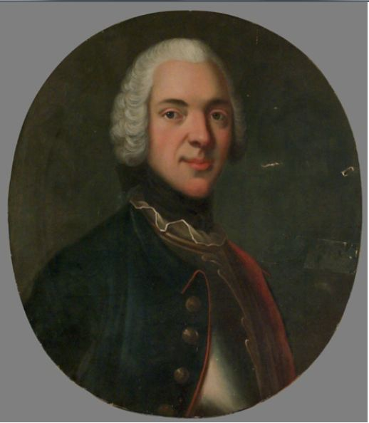 Swedish army officer and author Magnus Stålsvärd (1724-1756)